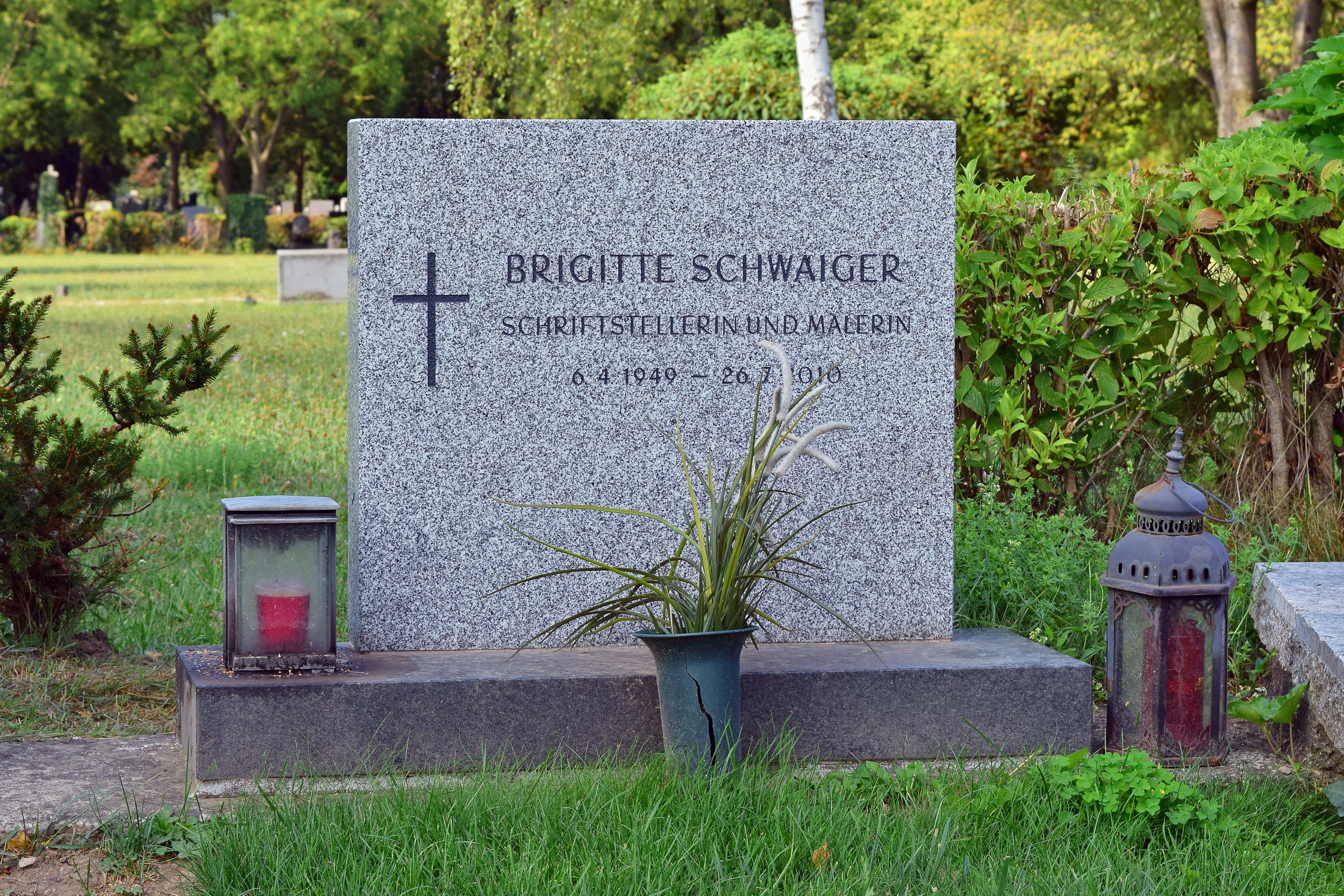 Grave of honor of the Austrian author Brigitte Schwaiger at the Wiener Zentralfriedhof